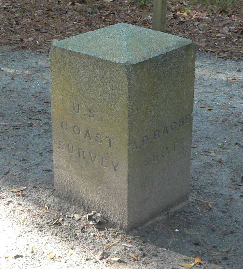 West end marker of Alexander Bache U.S. Coast Survey Line on Edisto Island, South Carolina. This west marker is located in Edisto Beach State Park.